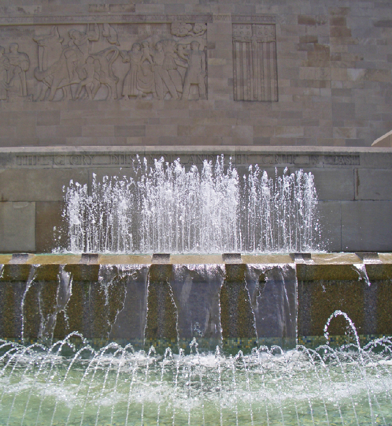 A fountain at Liberty Memorial, Kansas City, Missouri